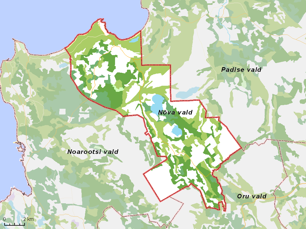 Map of municipality in Estonia